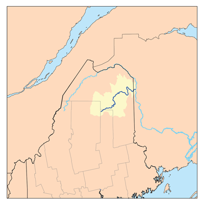 This is a map of the Aroostook river watershed. I, Karl Musser, created it based on USGS and Digital Chart of the World data.